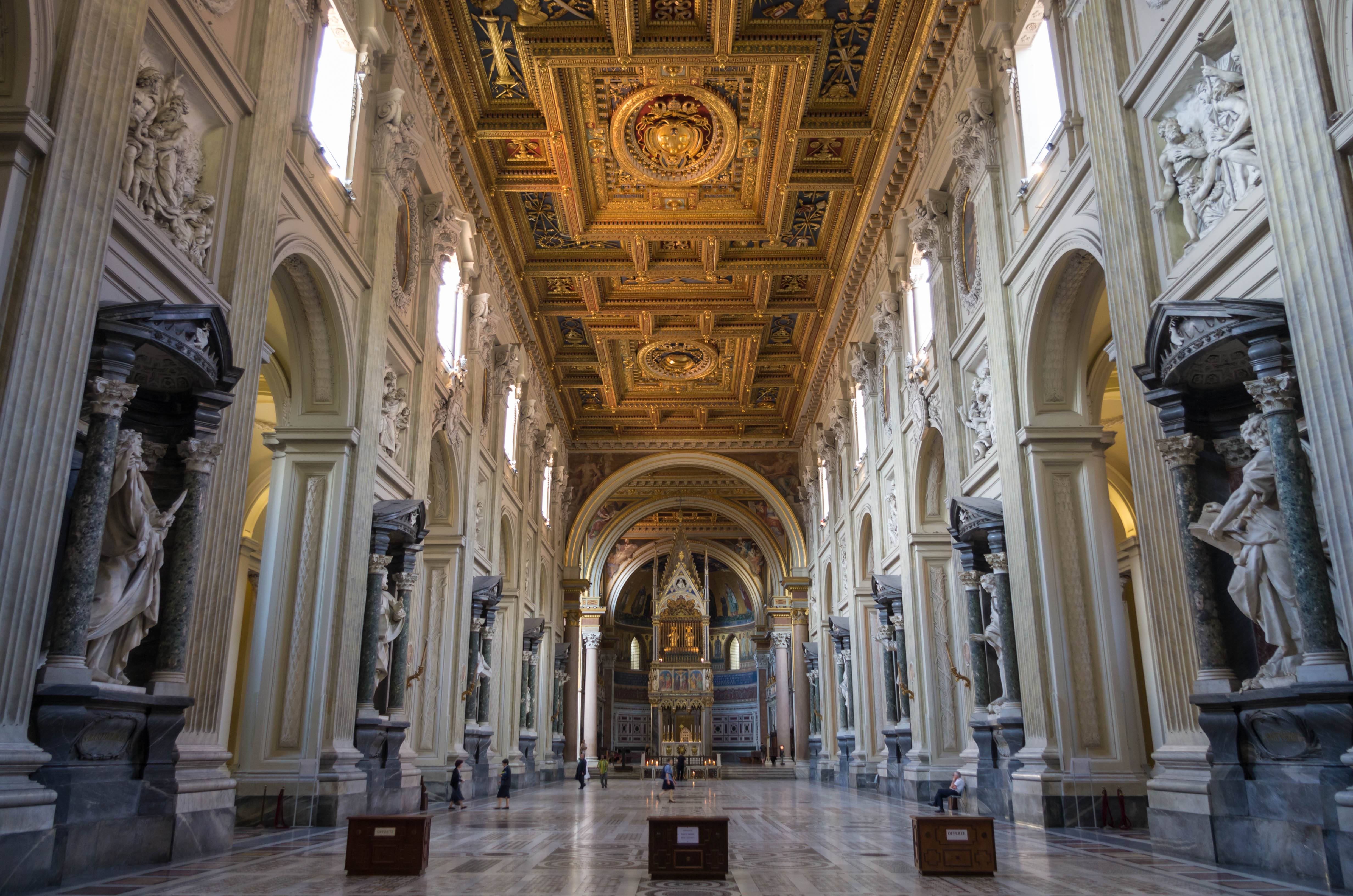 San Giovanni in Laterano (Rome) - Interior